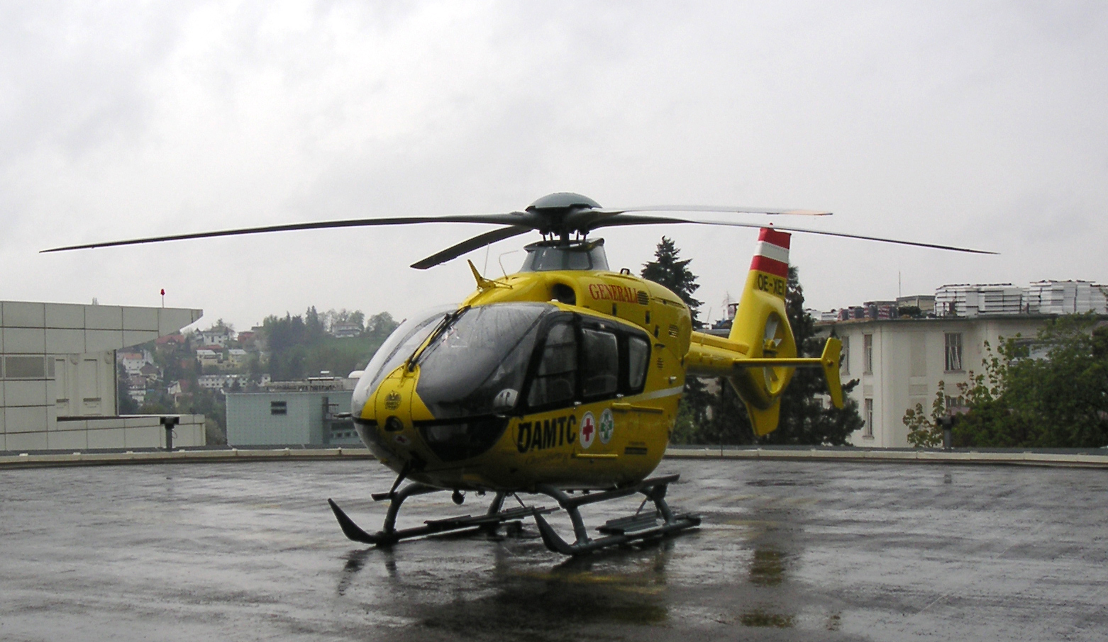 OEAMTC air ambulance "Christopherus 16" (C16) at the helipad at the University Hospital Graz, Department of Pediatric Surgery. Front view.